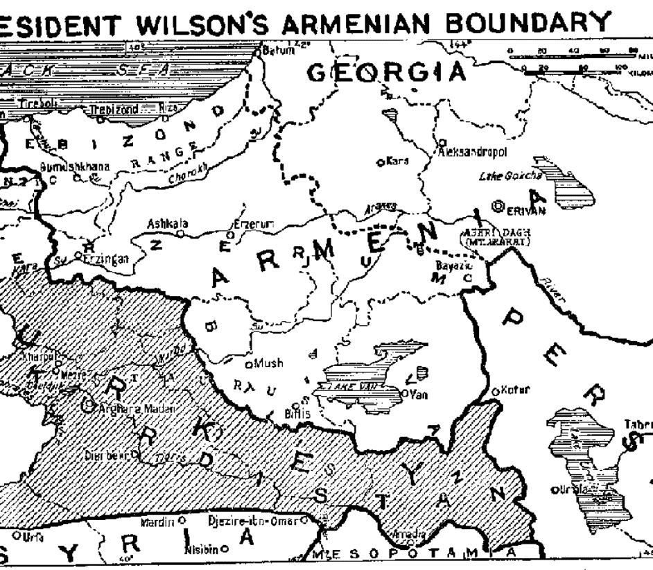 Treaty of Sevres , Hon.President Woodrow Wilson's Armenian Boundaries ; 20-Th NOV. 1920 Washington DC.